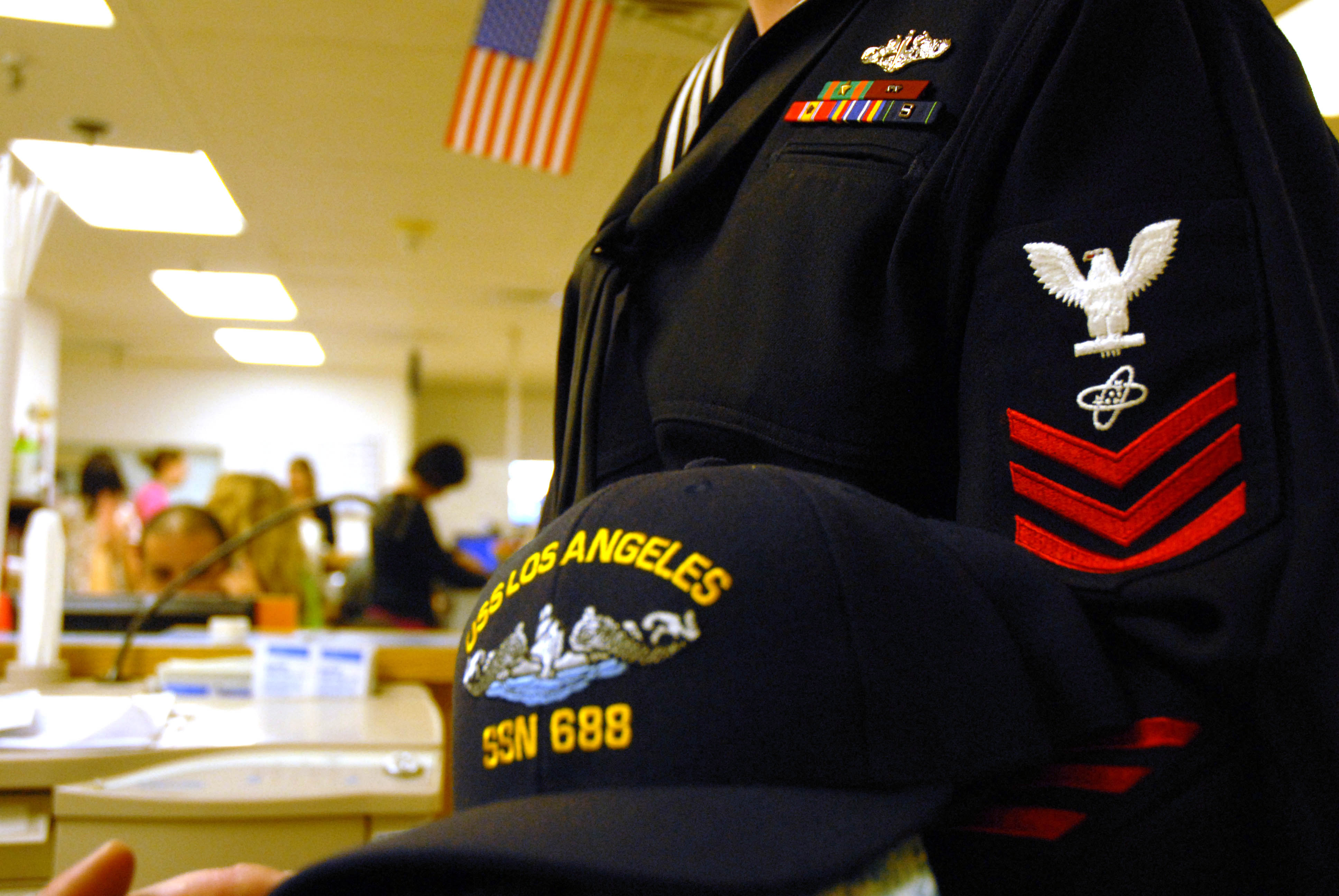 Los Angeles, Calif. (Dec. 11, 2006) - Electronics Technician 1st Class John Brooks of Seattle, Wash., assigned to USS Los Angeles (SSN 688), participates in the Navy’s Caps for Kids program at the Los Angeles Children’s Hospital. Crew members from the Los Angeles visited and handed out ball caps and photos of their submarine to almost 50 children on the 6th floor surgery unit. Currently the Los Angeles, based out of Pearl Harbor, is conducting a namesake city visit that is the first port call the submarine has made to the city it was named after. U.S. Navy photo by Mass Communication Specialist 2nd Class Elizabeth Thompson (RELEASED)